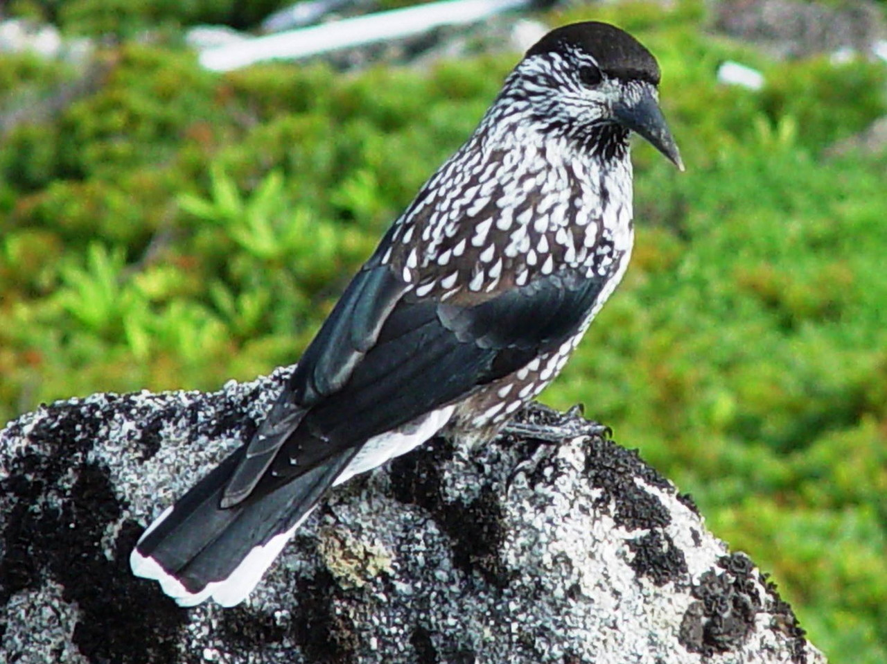 Nucifraga caryocatactes in Mount Tsubakuro